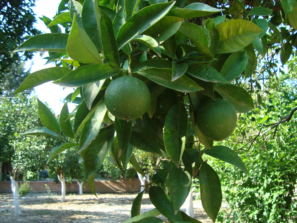 orange grove - beldibi - kemer- antalya - turkey - türkiye